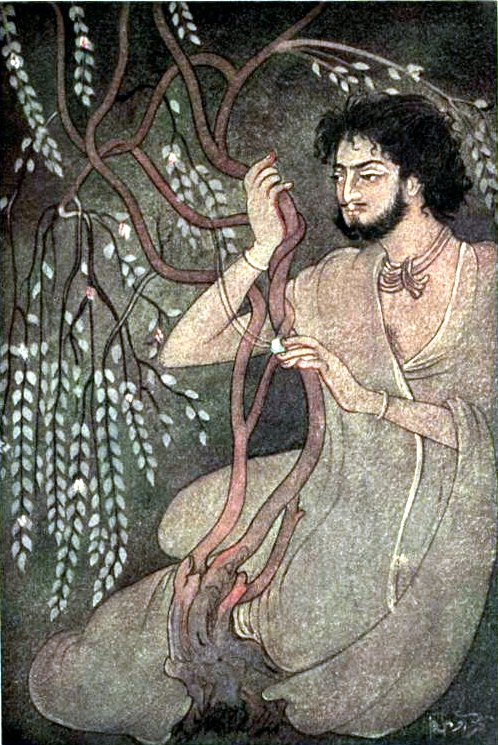 Myths of the Hindus & Buddhists, p. 344: Pururavas by Khitindra Nath Mazumdar